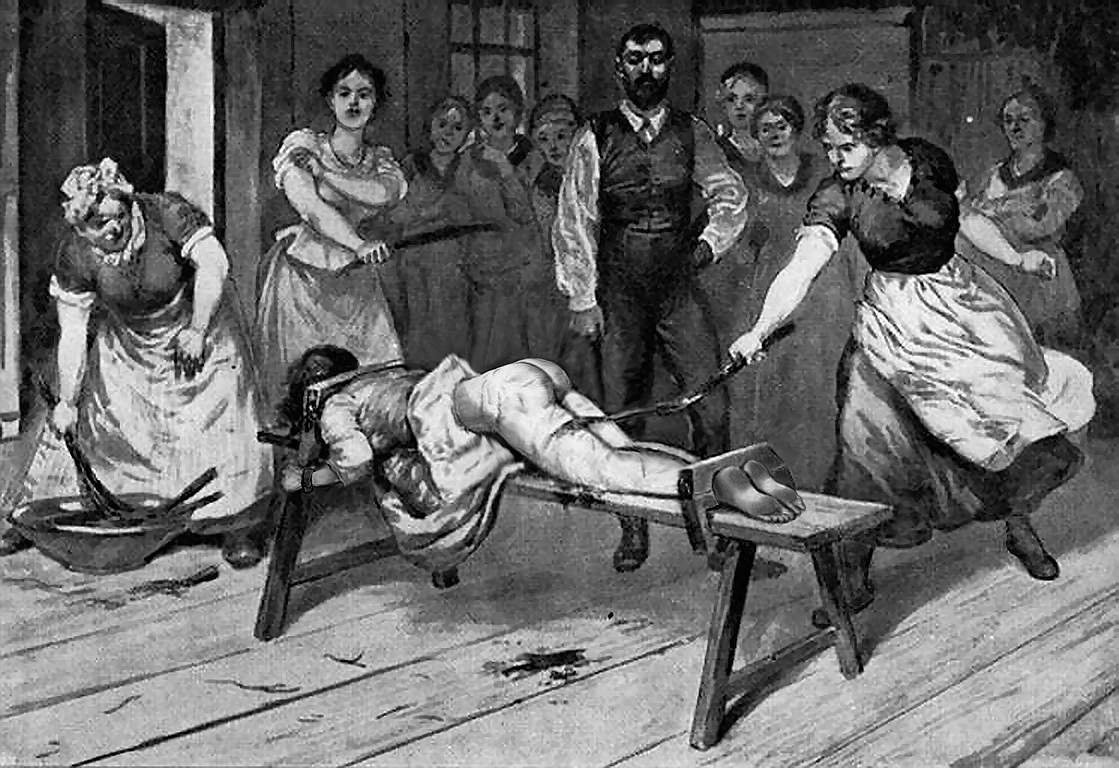 Corporal punishment in a women's penitentiary. A prison inmate is disciplined by three guards, while other guards and the warden look on. The prisoner is restrained with blocks made of wood, were her neck and her ankles are secured.